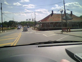 Author: Chris Miller Source: Took picture myself. Purpose: To show Georgia State Route 81 south in Winder, Georgia.